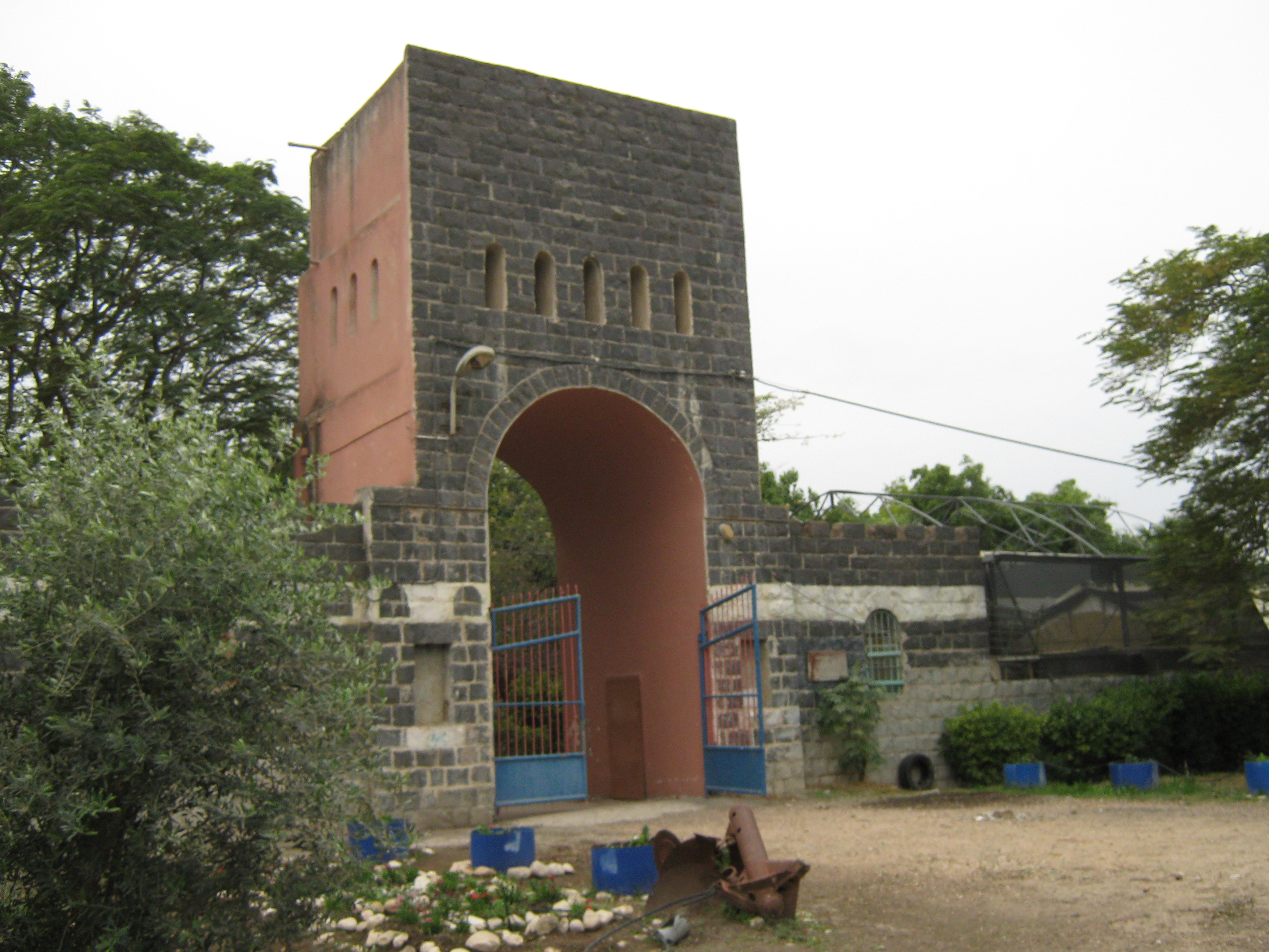 Entrance to a farm in Beit Shean